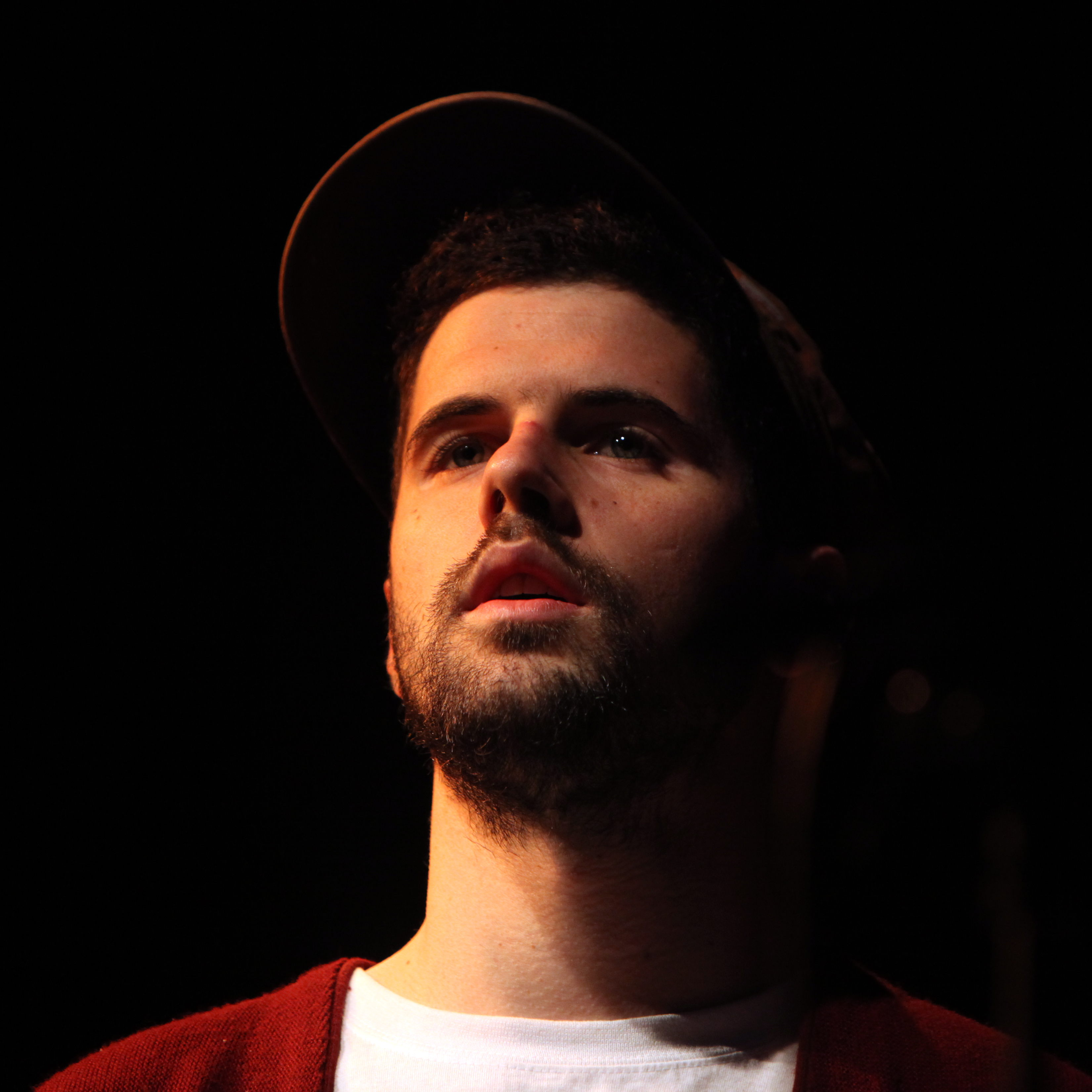 Nick Mulvey of the Portico Quartet, playing at Cully Jazz Festival 2011